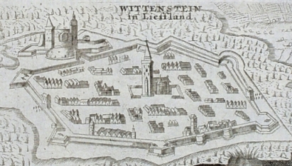 Engraving of Paide and it's castle.